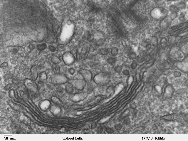 High magnification transmission electron microscope image of a human leukocyte, showing golgi, which is a structure involved in protein transport in the cytoplasm of the cell. JEOL 100CX TEM